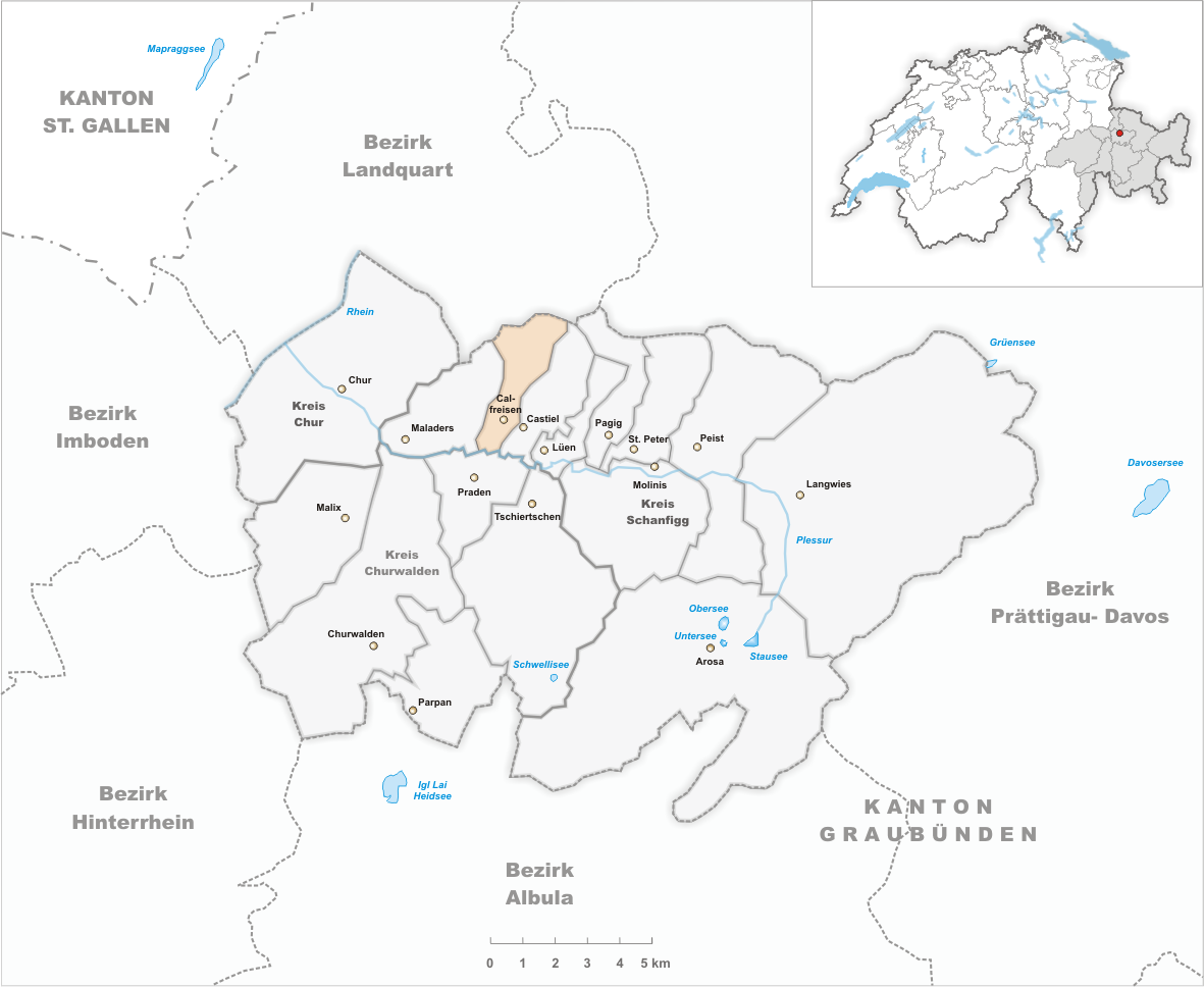 Municipality Calfreisen